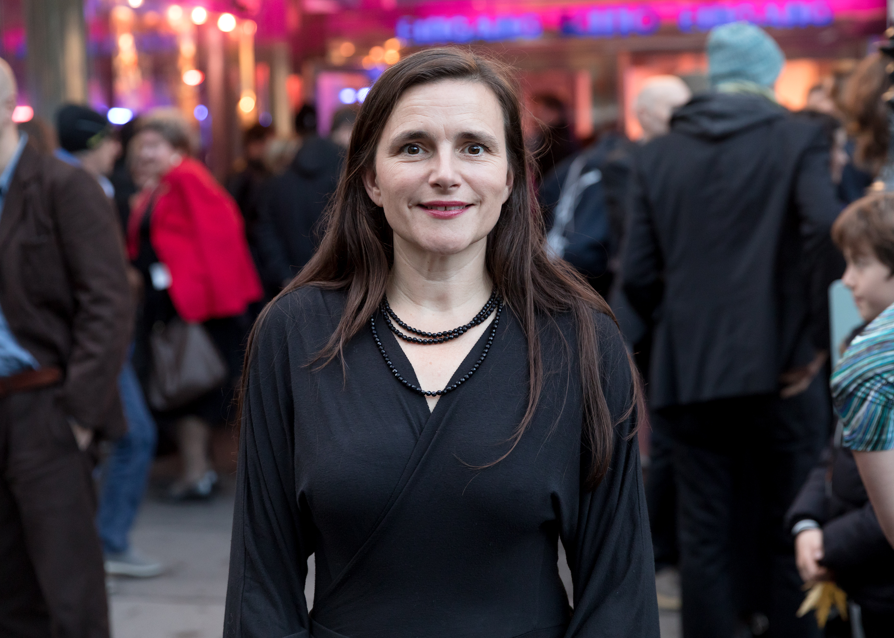 Barbara Albert (Mademoiselle Paradis) at the Vienna International Film Festival 2017 (Gartenbaukino, Vienna, Austria).